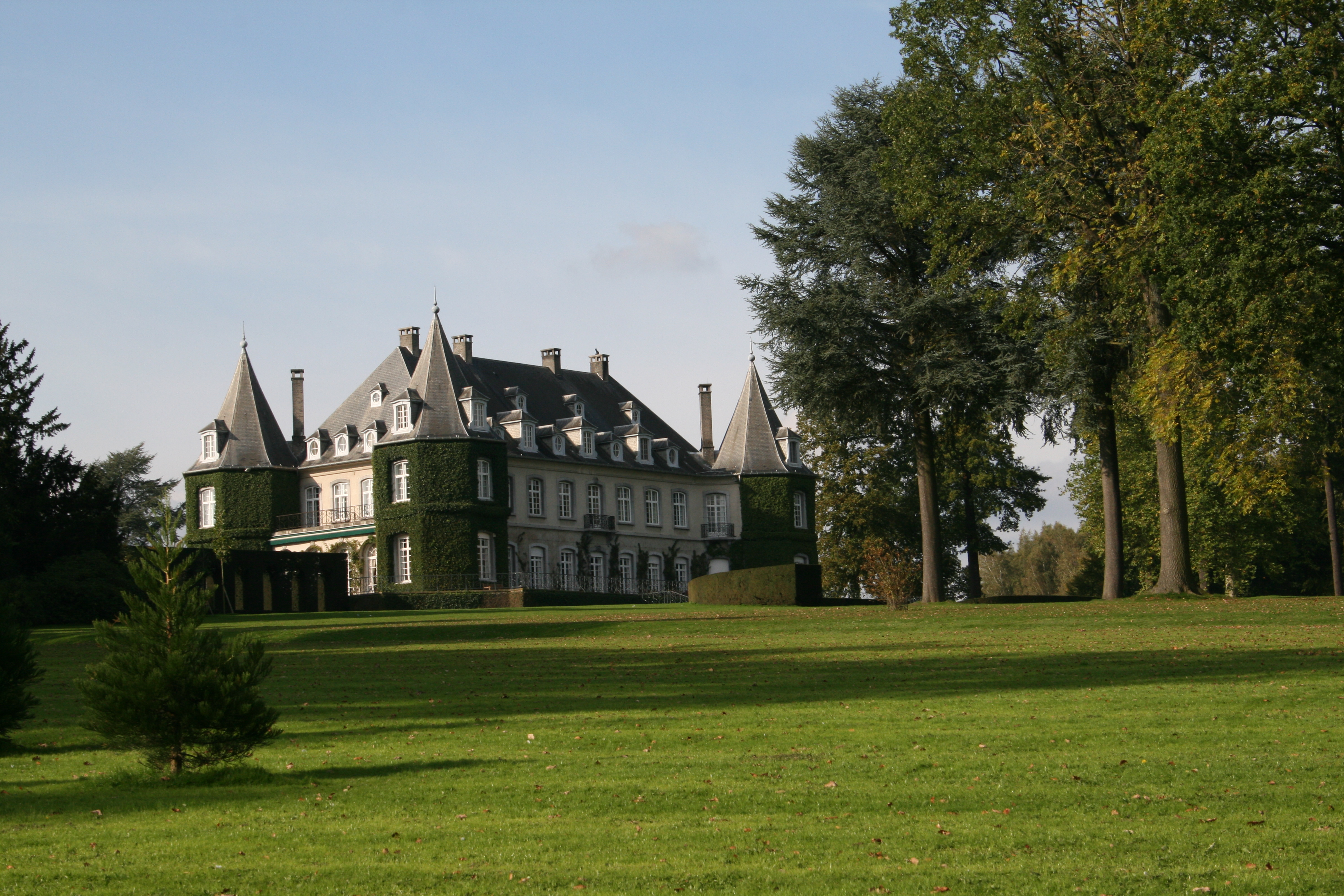 La Hulpe (Belgium), southern and eastern sides of the Solvay castle (1842).